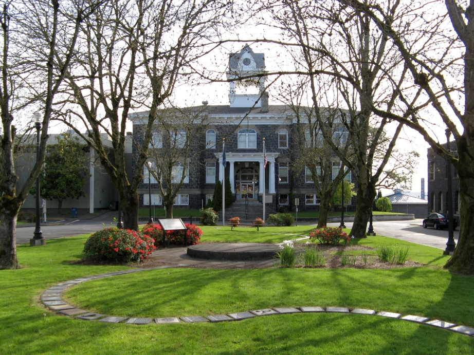 Columbia County Court House (1906), St. Helens, OR.